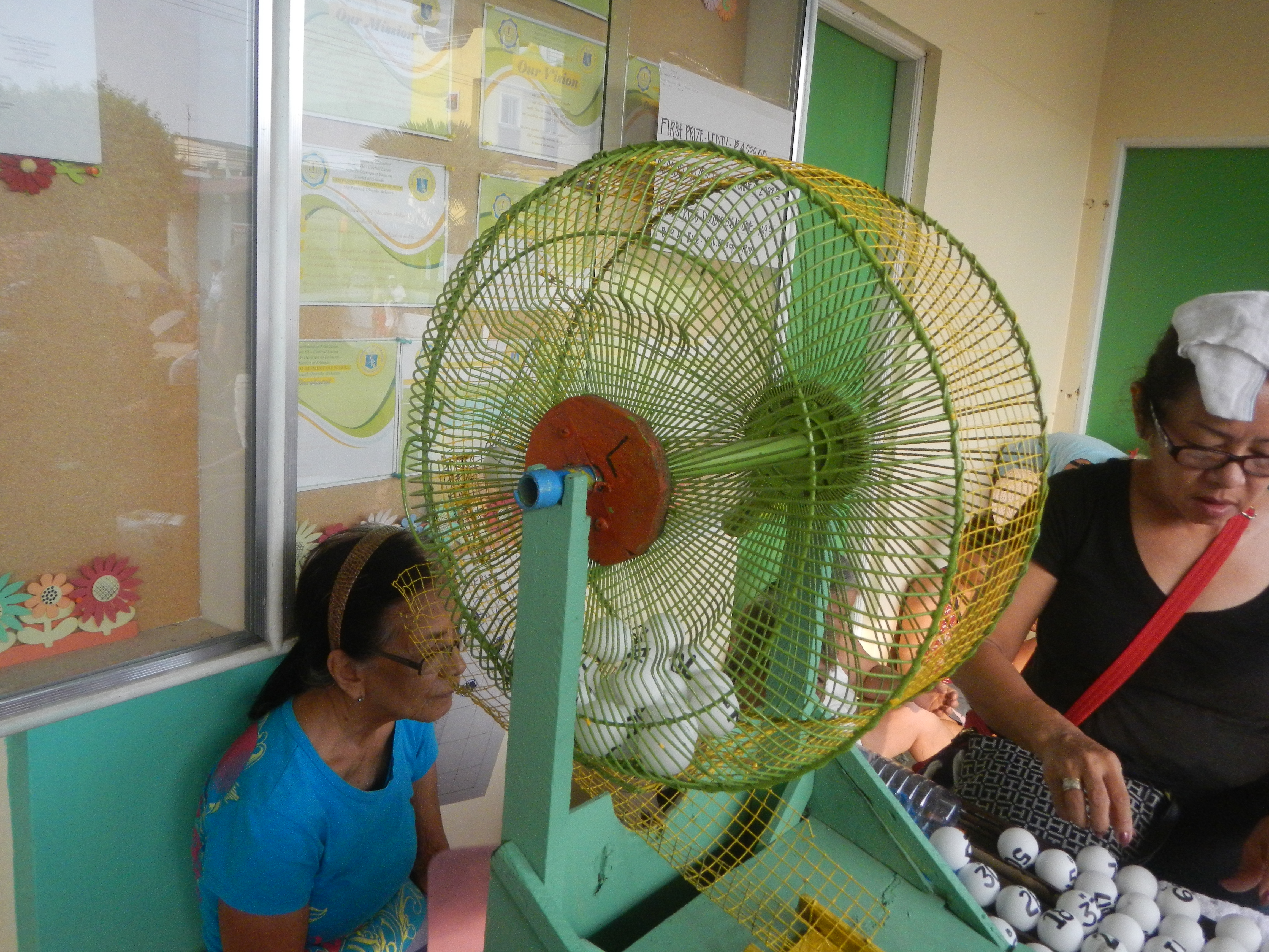 Bingo card Bingo machines Bingo for a Cause in San Pascual Elementary School, Obando, Bulacan in Barangay Paco 14°43'55"N 120°55'1"E San Pascual 14°43'14"N 120°55'47"E beside or near Pag-Asa (Poblacion) 14°42'20"N 120°56'0"E Obando, Bulacan Obando, Bulacan Bulacan province (Note: Judge Florentino Floro, the owner, to repeat, Donor Florentino Floro of all these photos hereby donate gratuitously, freely and unconditionally all these photos to and for Wikimedia Commons, exclusively, for public use of the public domain, and again without any condition whatsoever).